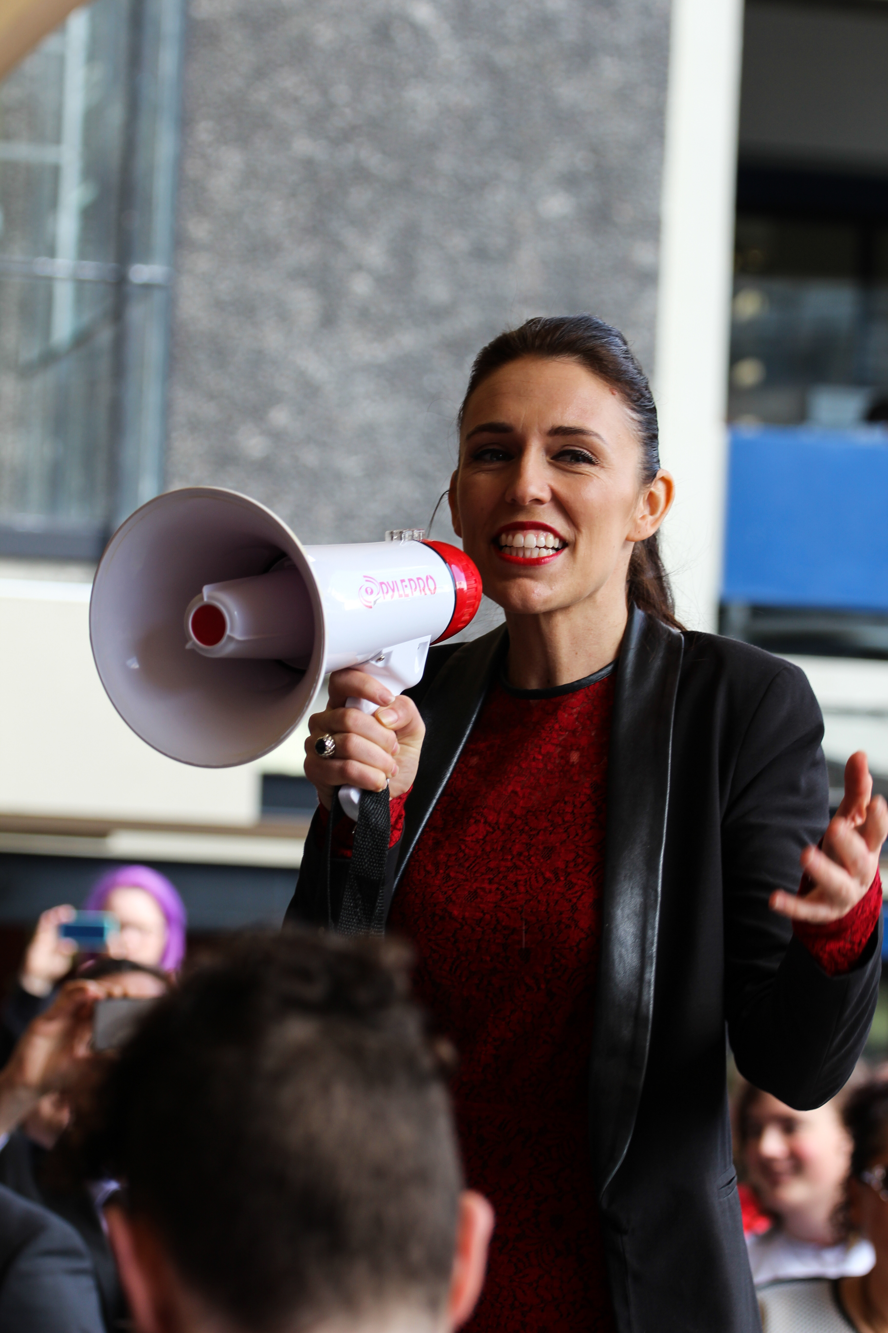 Jacinda Ardern, leader of the NZ Labour party, was at the University of Auckland Quad on the first of September, 2017.